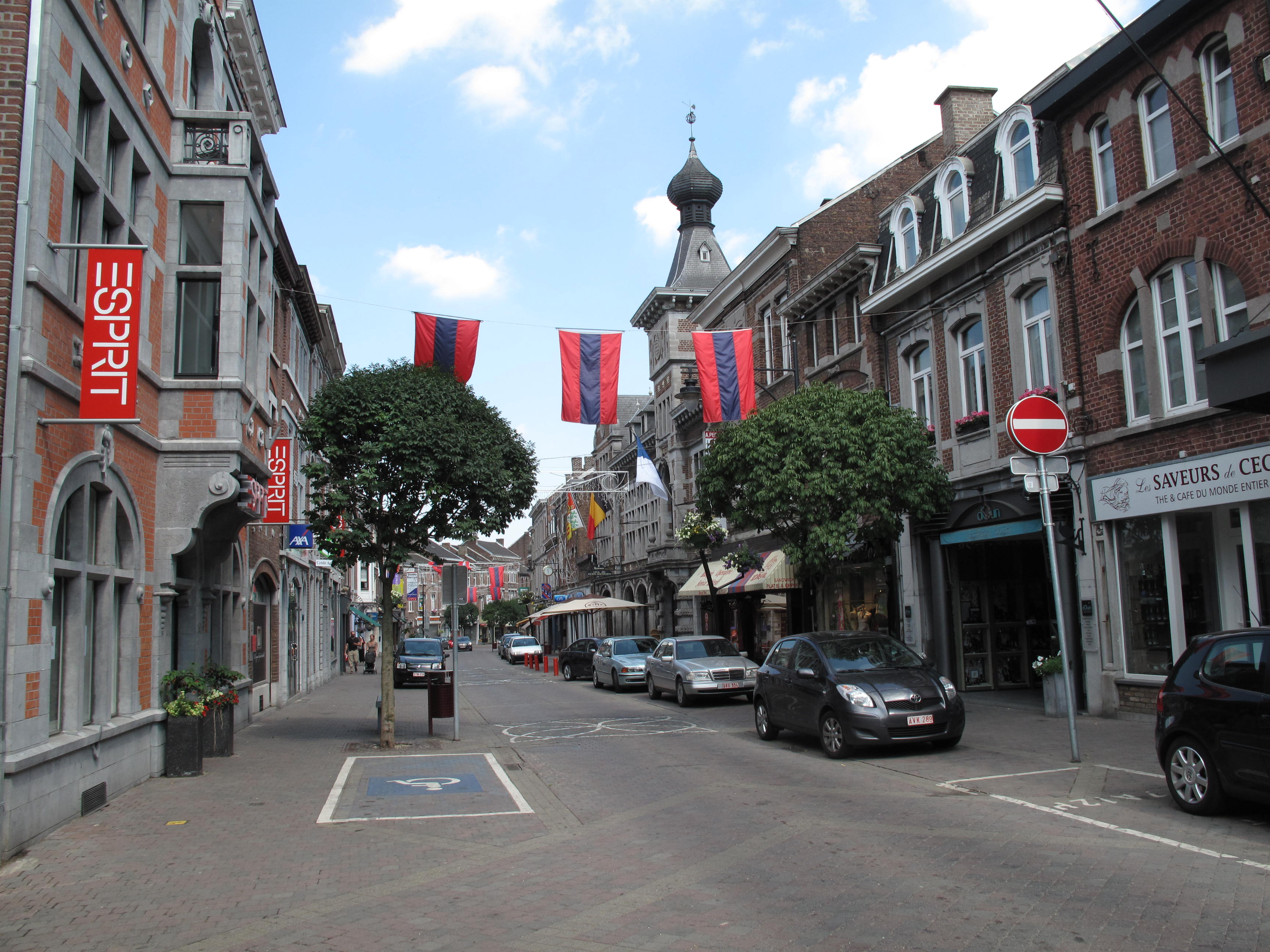 Visé, view to a street